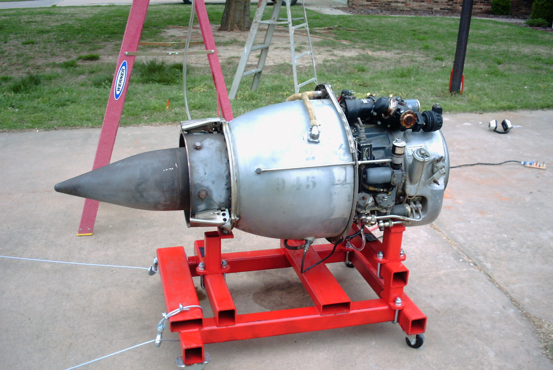 Marbore IIC view from the side after a run in my driveway. This picture was taken by myself. Note the fuel puddle underneath the engine, which occurs after shutdown as the engine vents excess fuel.